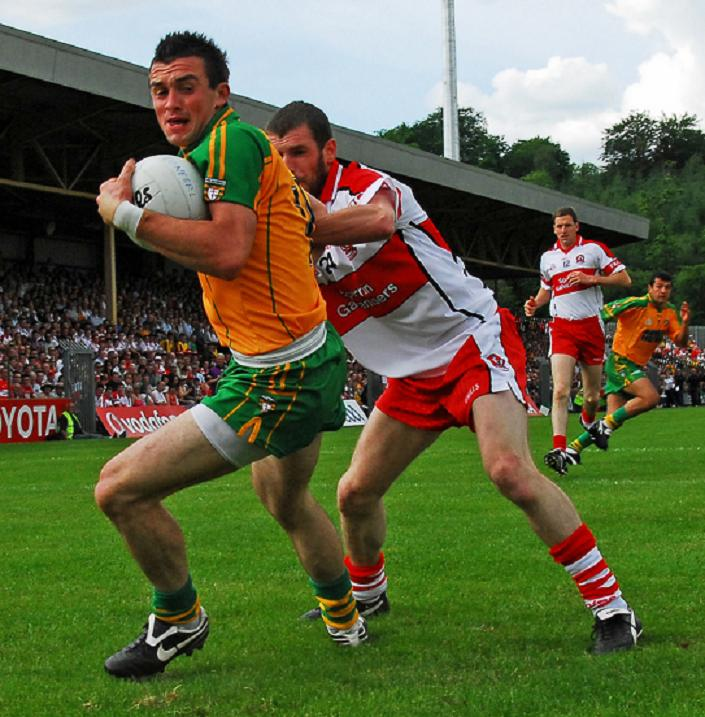 Derry Gaelic footballer Francis McEldowney (right) tackling Donegal's David Walsh in the 2008 Ulster Senior Football Championship. (Cropped version).